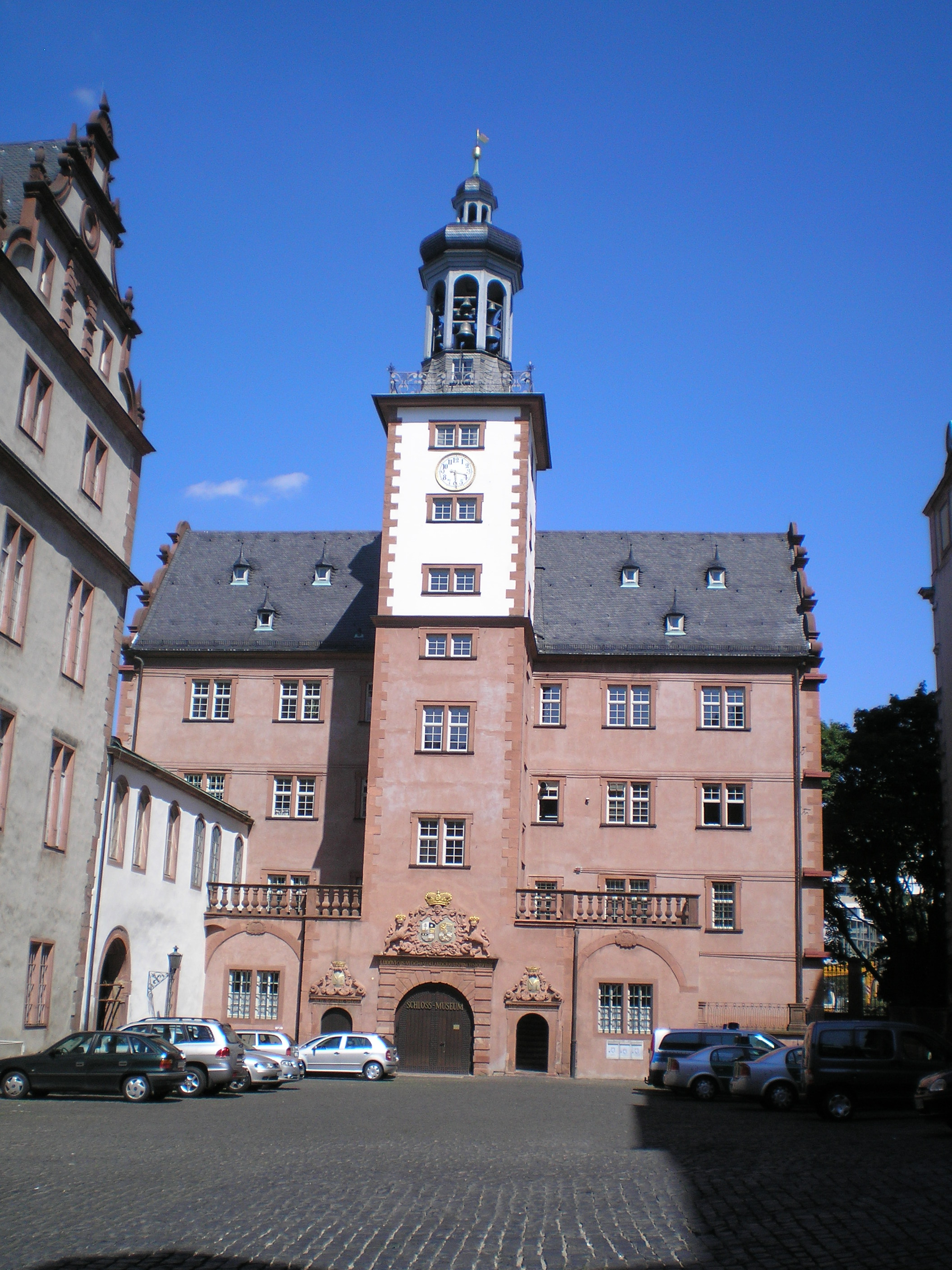 Residenzschloss in Darmstadt